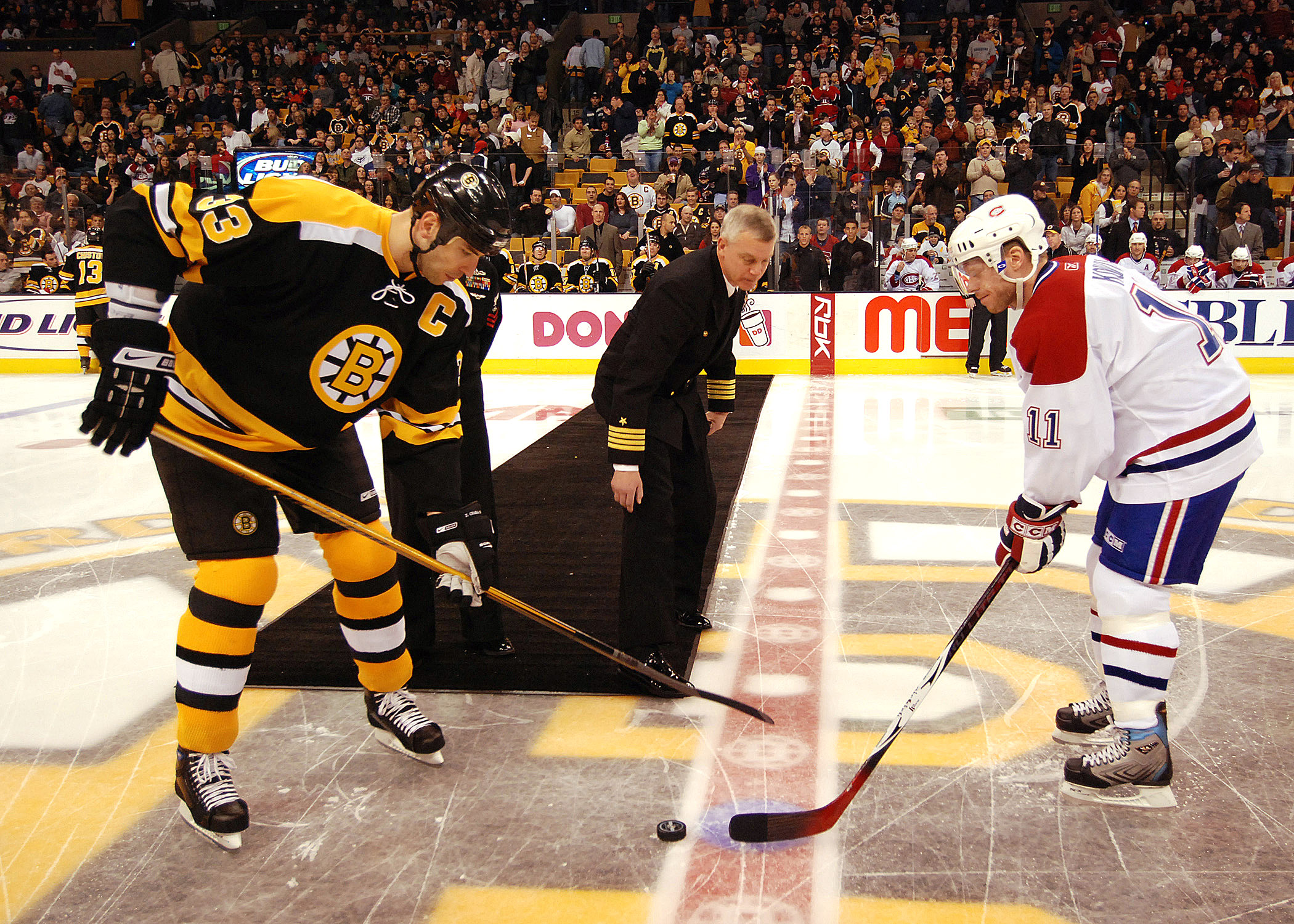 BOSTON (March 3, 2007) - Capt. Todd A. Zecchin, commanding officer of USS John F. Kennedy (CV 67), drops the ceremonial puck at the Boston Bruins and Montreal Canadians game at the TD Bank North Garden. Kennedy and her crew are in Boston for a five-day port visit to the home city of her namesake prior to decommissioning March 23rd, 2007, in Mayport, Fla. U.S. Navy photo by Mass Communication Specialist 2nd Class Tommy Gilligan.